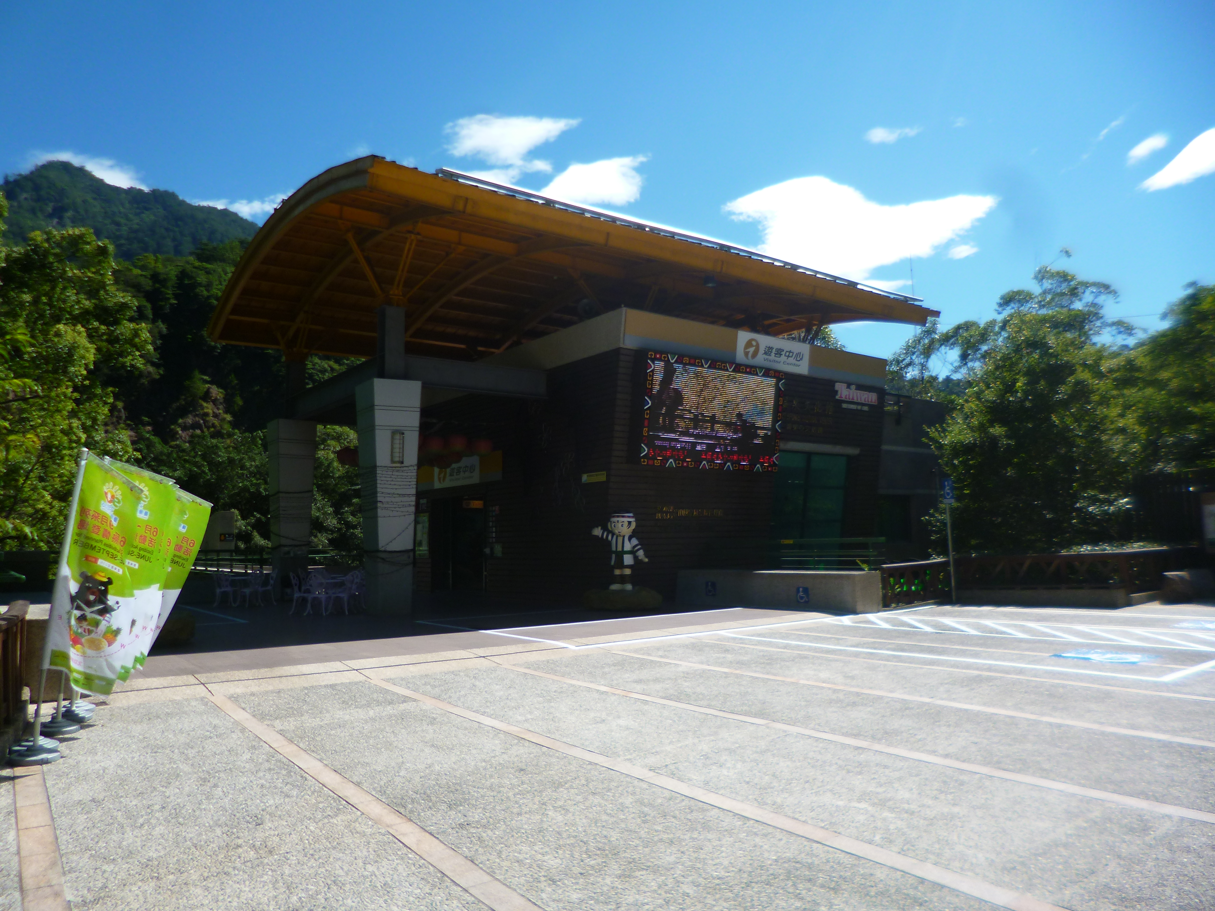 Hot Springs Cultural Center, Tri-Mountain National Scenic Area.